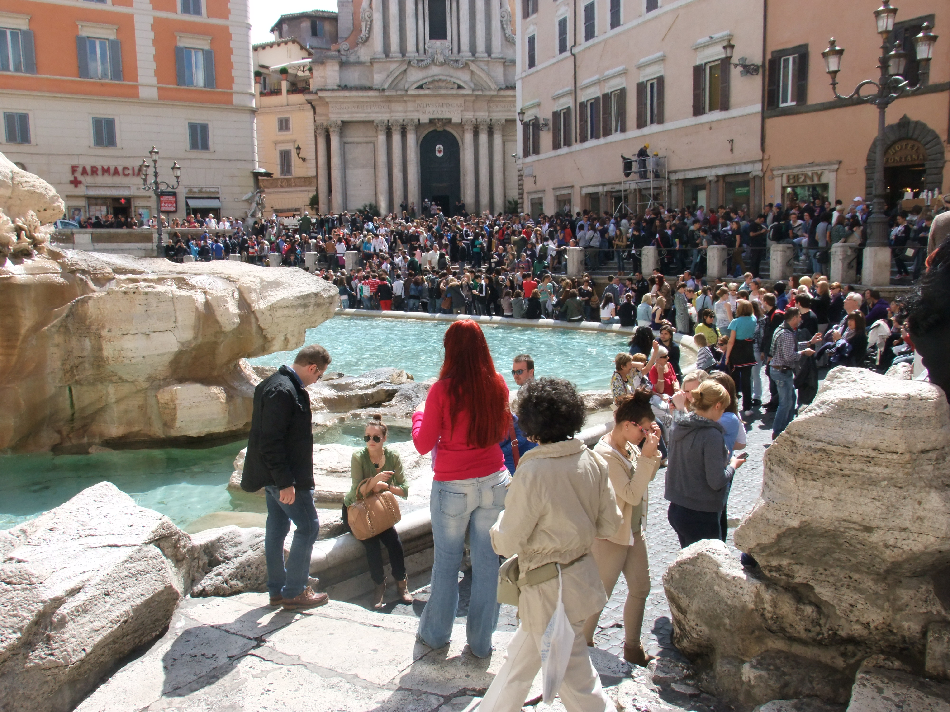 Tourists at Trevi Fountain, Rome, Italy.